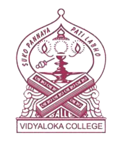 logo of the vidyaloka college